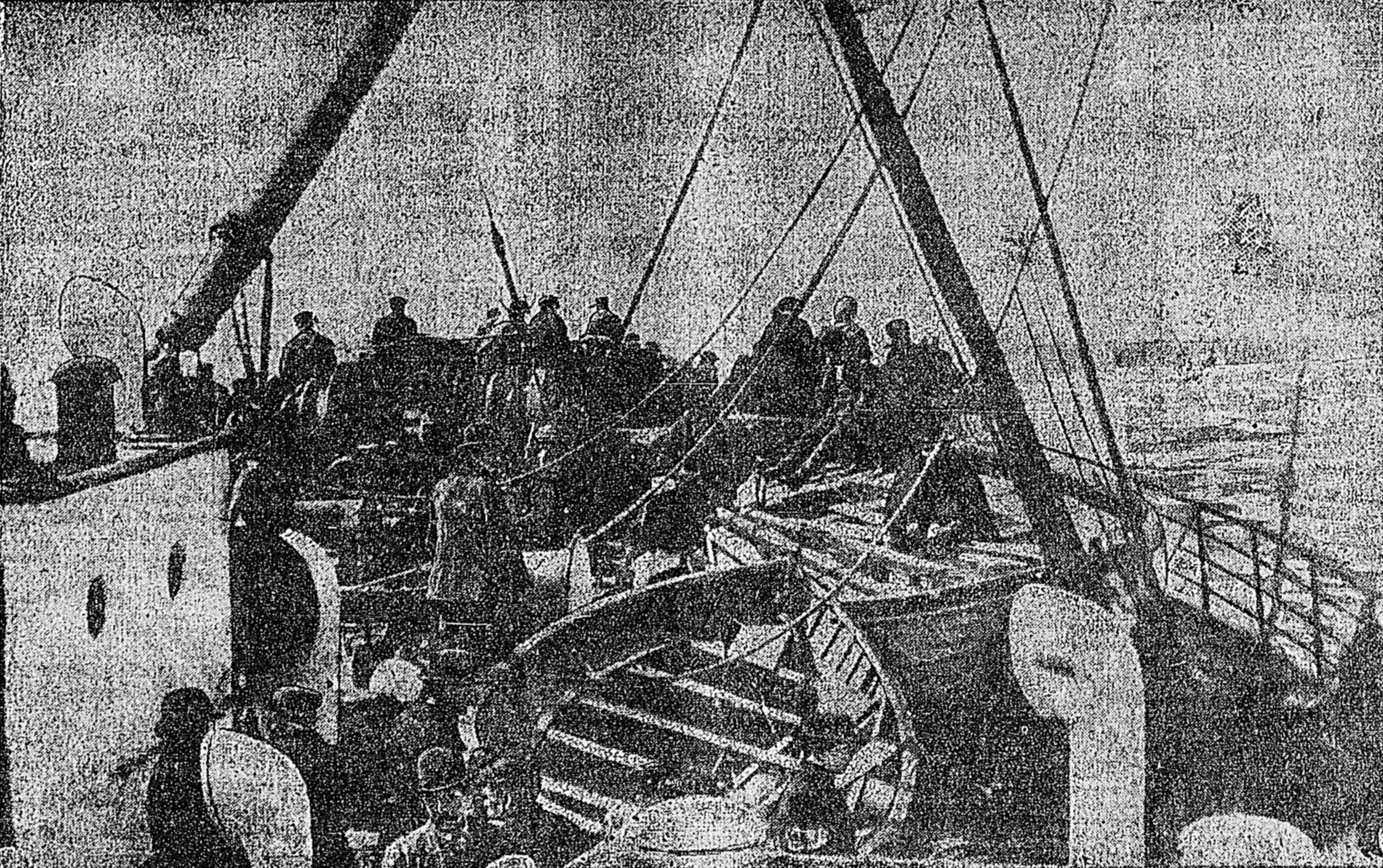 Titanic lifeboats strewn on the deck of the Carpathia on the morning after the Titanic sank.